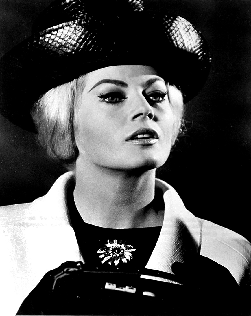 Publicity photo of Anita Ekberg for The Alphabet Murders.